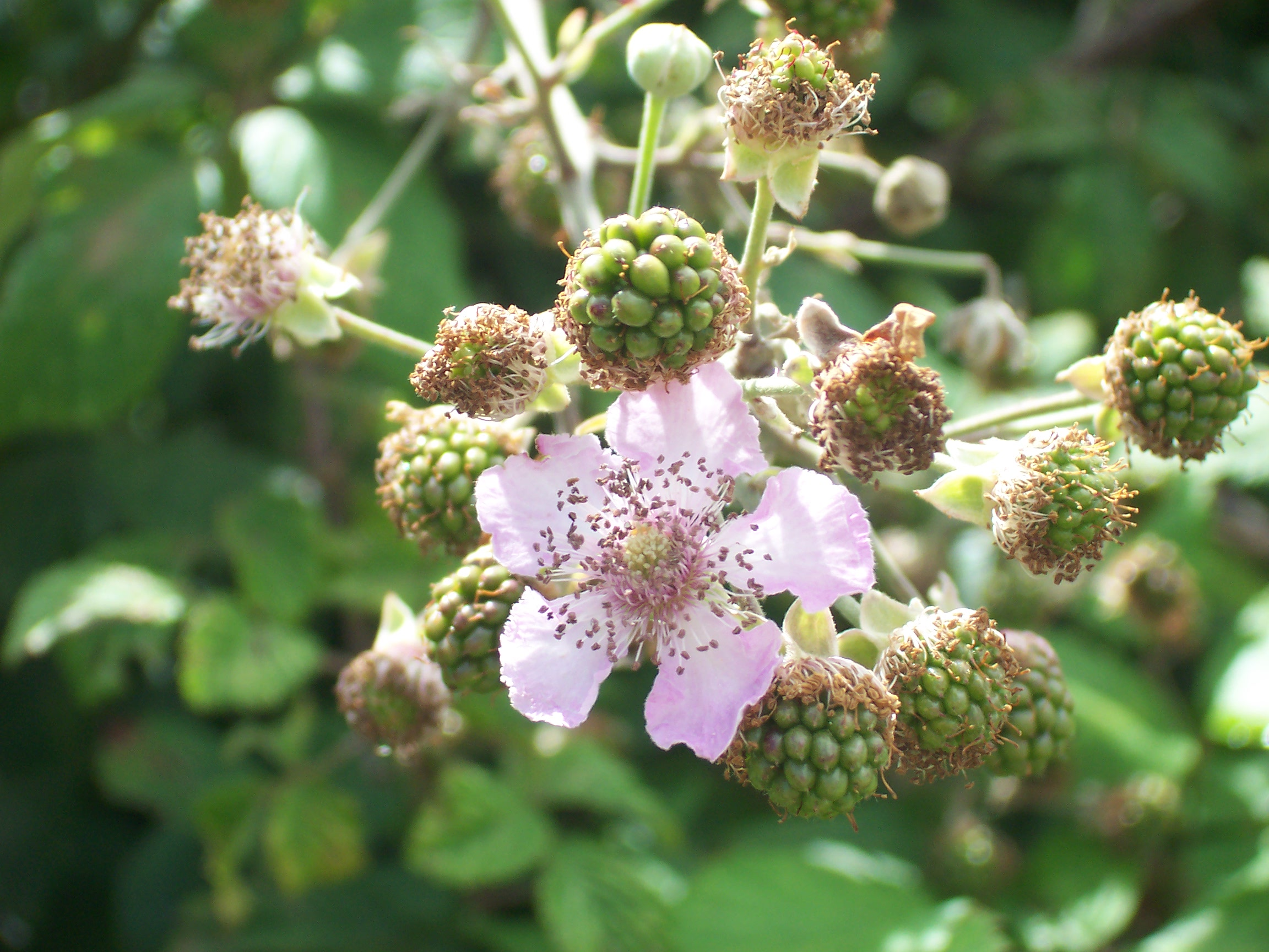 Rubus fruticosus flowers and unripen fruits photographed at Saint-Pierre-le-Moutier (Nièvre)